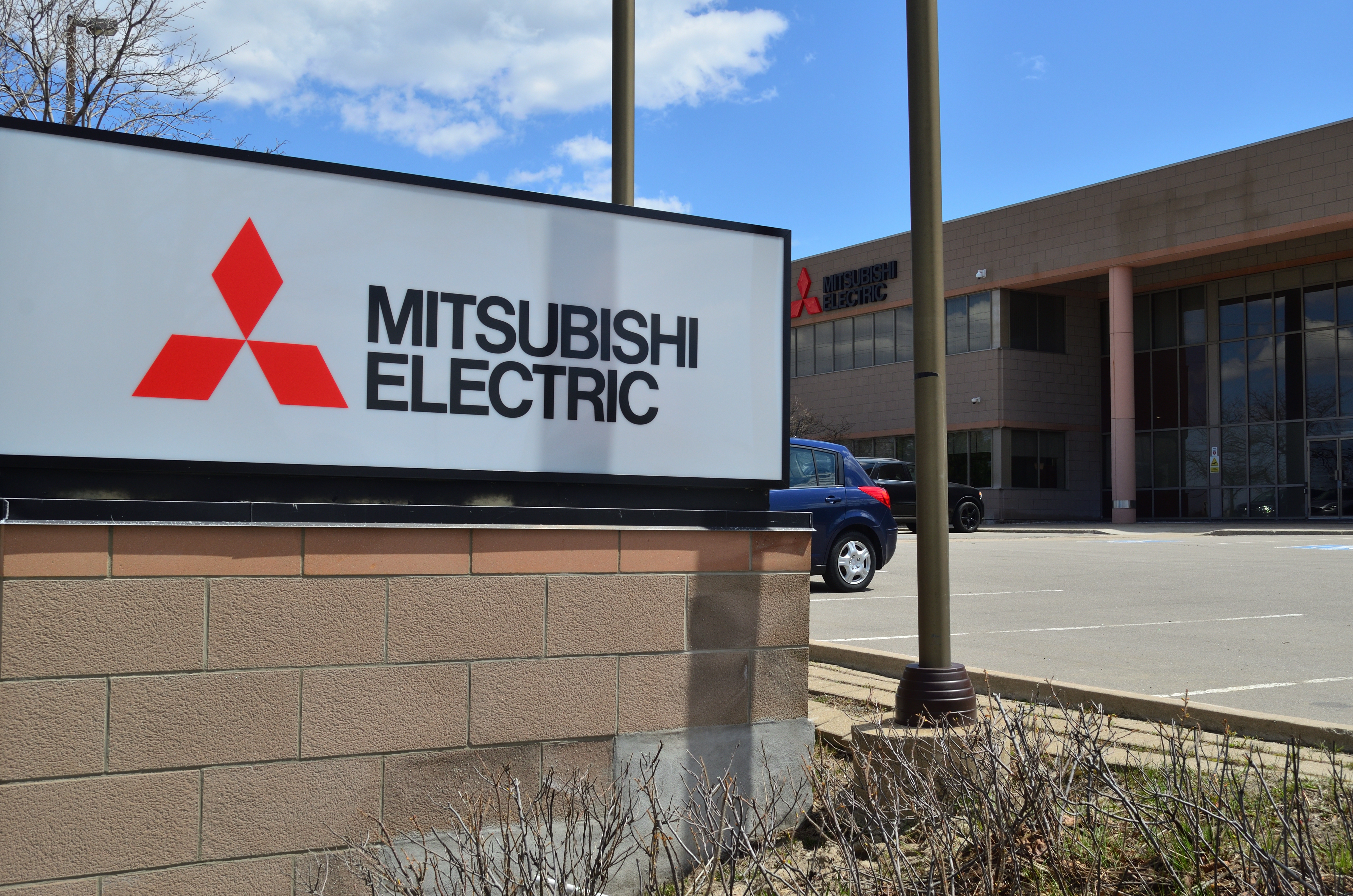 Mitsubishi Electric Sales Canada - Address: 4299 14th Ave, Markham, ON L3R 0J2